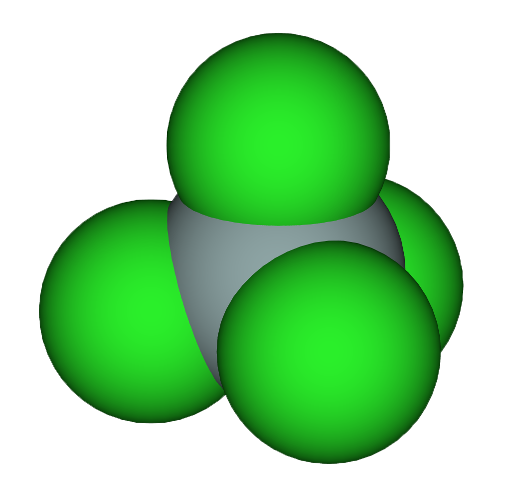 Silicon tetrachloride